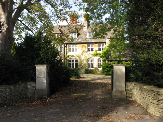 The Old Vicarage, Down Ampney On Charlham Way in the centre of the village